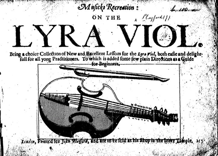 The fronticepiece from John Playford's (1623-1686?) "Musicks recreation on the lyra viol"